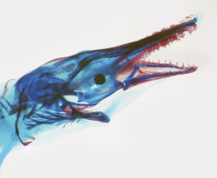 A “living fossil”, the spotted gar diverged from the lineage of teleost fish (constituting half of all vertebrate species) before the teleost genome duplication. With its genome organized remarkably similar to that of a human, the gar provides an outgroup for connecting medical models of zebrafish and medaka to the human genome. Here, a gar larva 22 days old is stained for cartilage (Alcian blue) and bone (Alizarin red). See Catchen et al. (pp. 171–182). (Photo courtesy of Dr. Yi-lin Yan and Dr. Brian Eames).